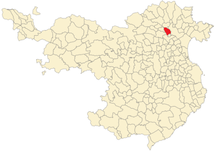 Cabanes